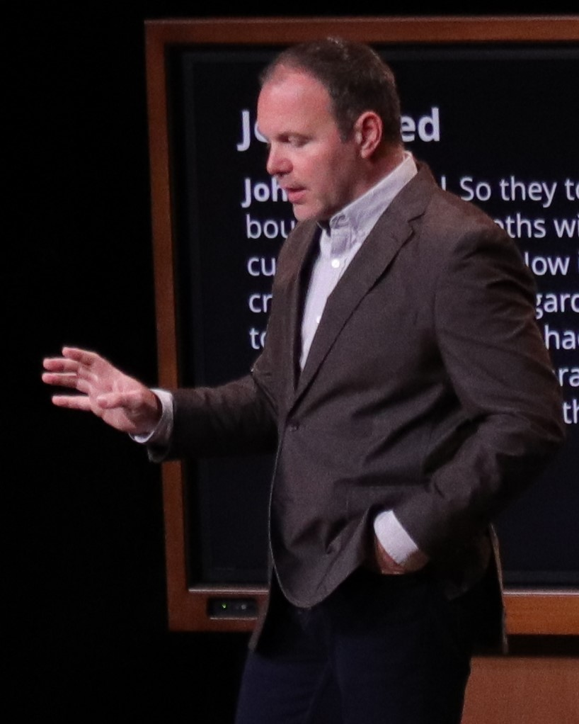 Pastor Mark, John's Gospel, 2019